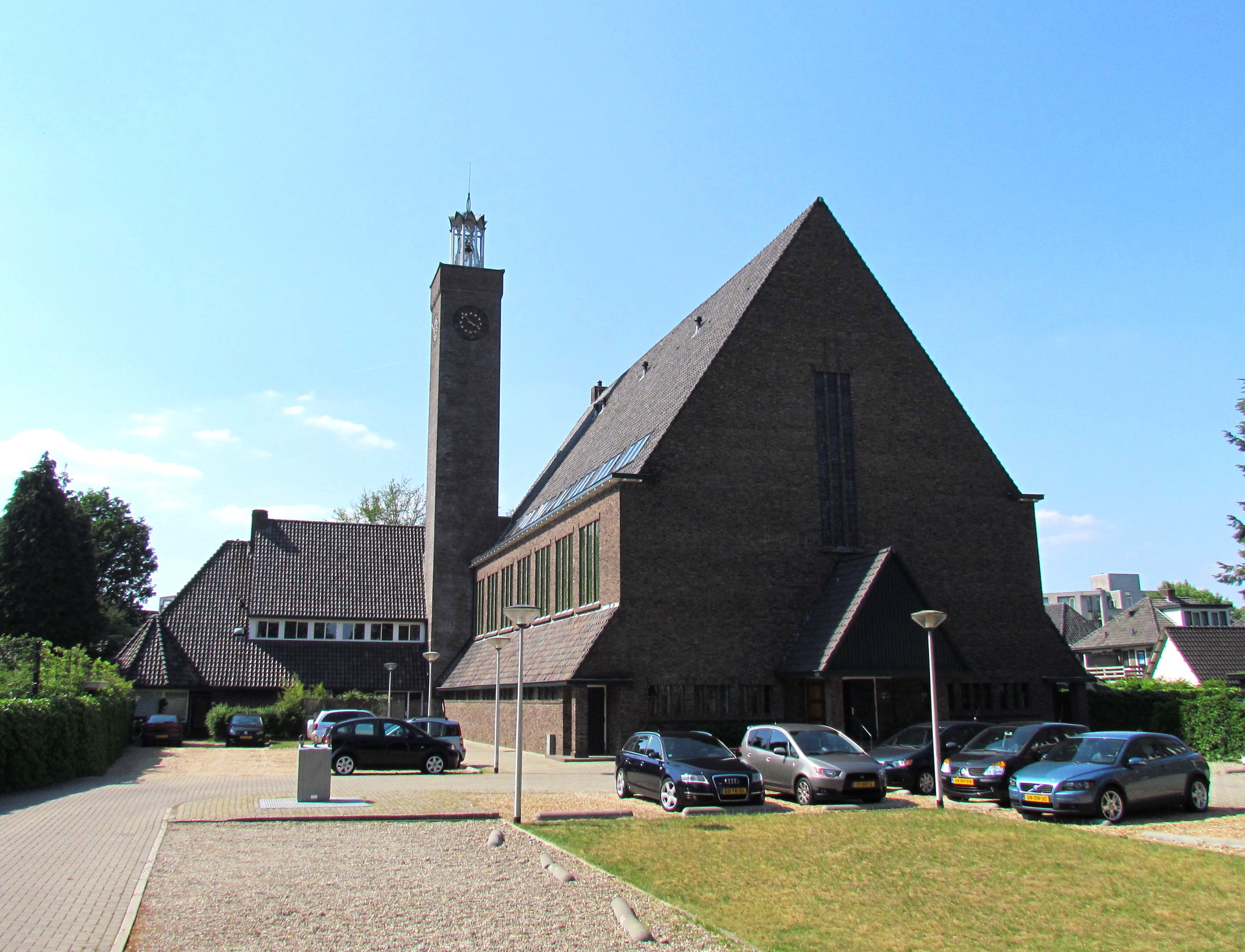 Apeldoorn, NL: Zuiderkerk ('Southern Church') (architect E.J. Rotshuizen, 1932). A municipal monument, the church closed in 2002; nowadays it's an apartment building